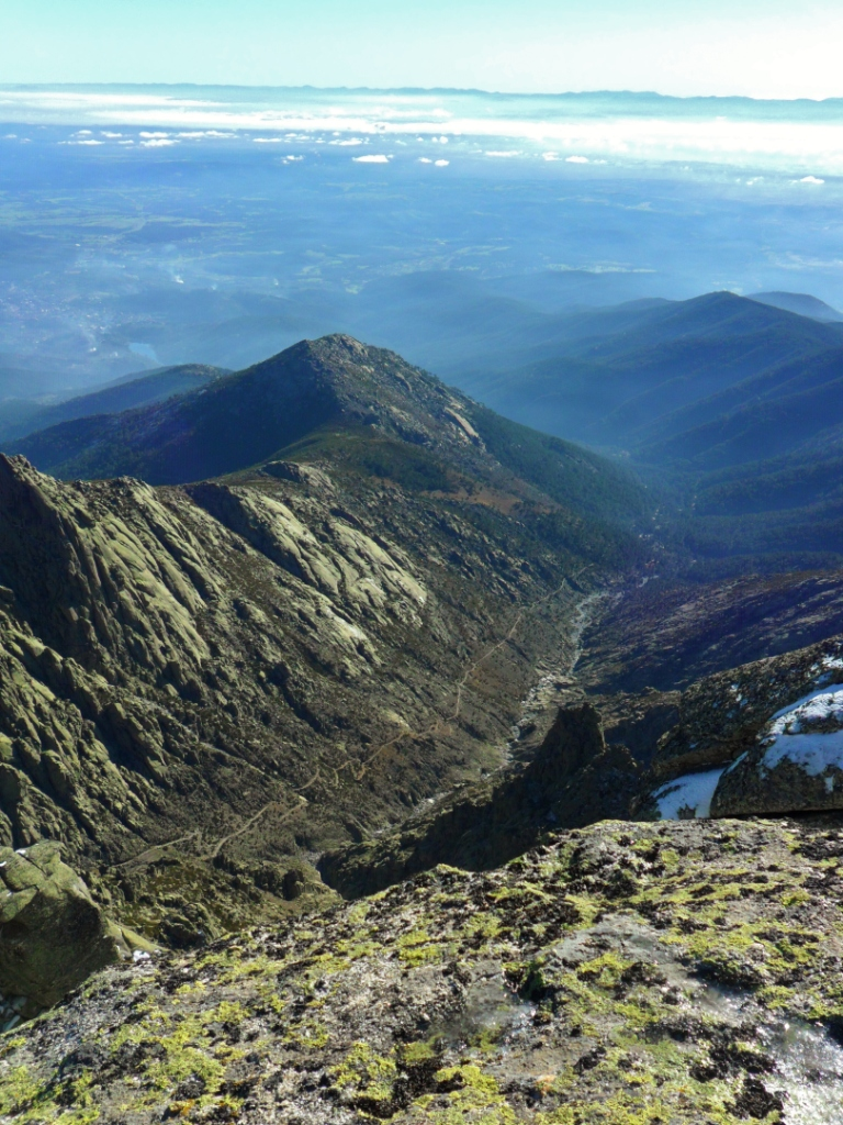 Los Galayos Gorge in Sierra de Gredos mountain range, Castile and León (Spain).